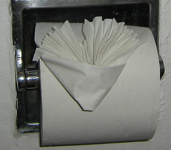 Fancy folded toilet paper